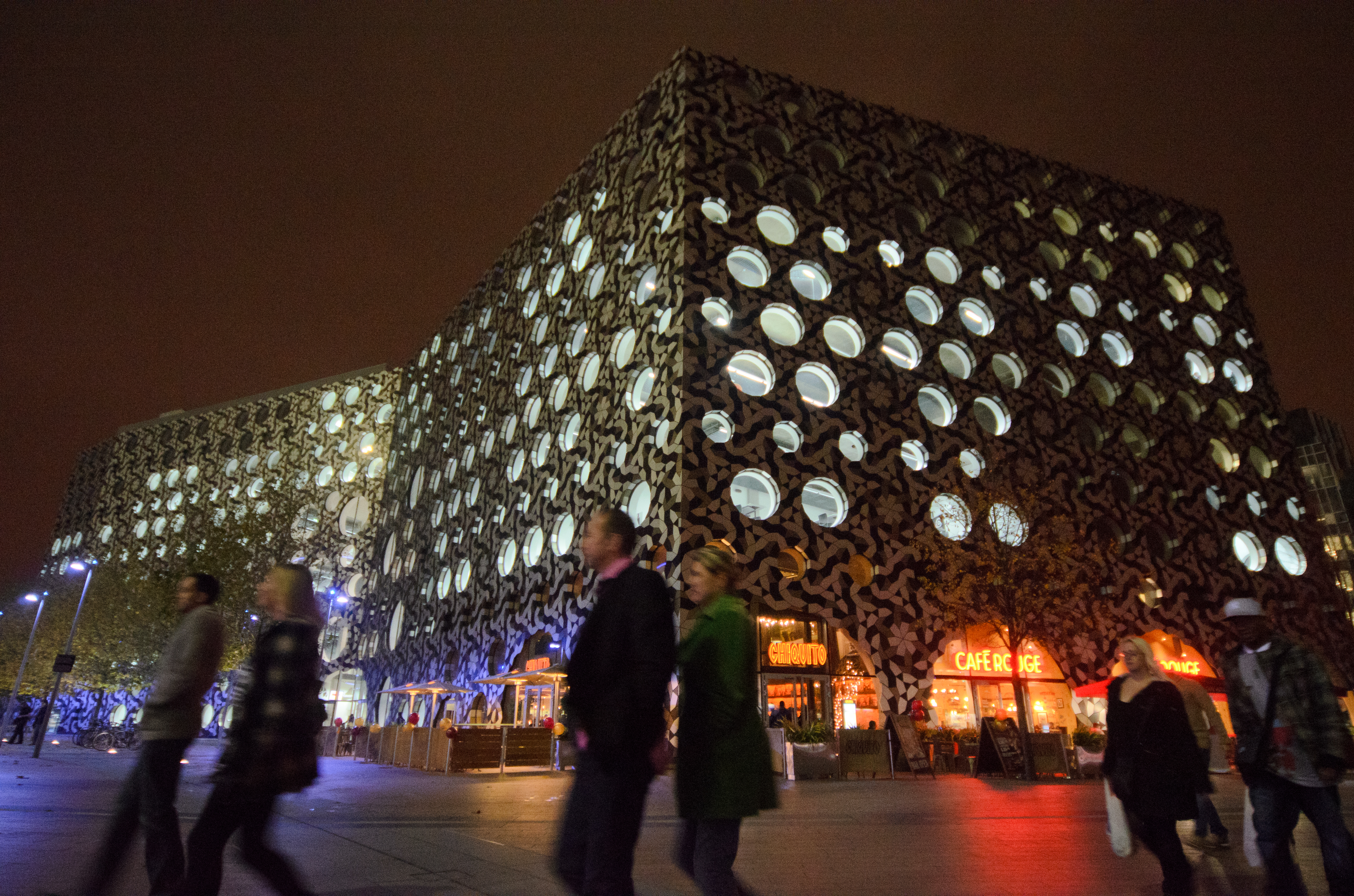 Ravensbourne College in November 2011, next to the O2 music venue.